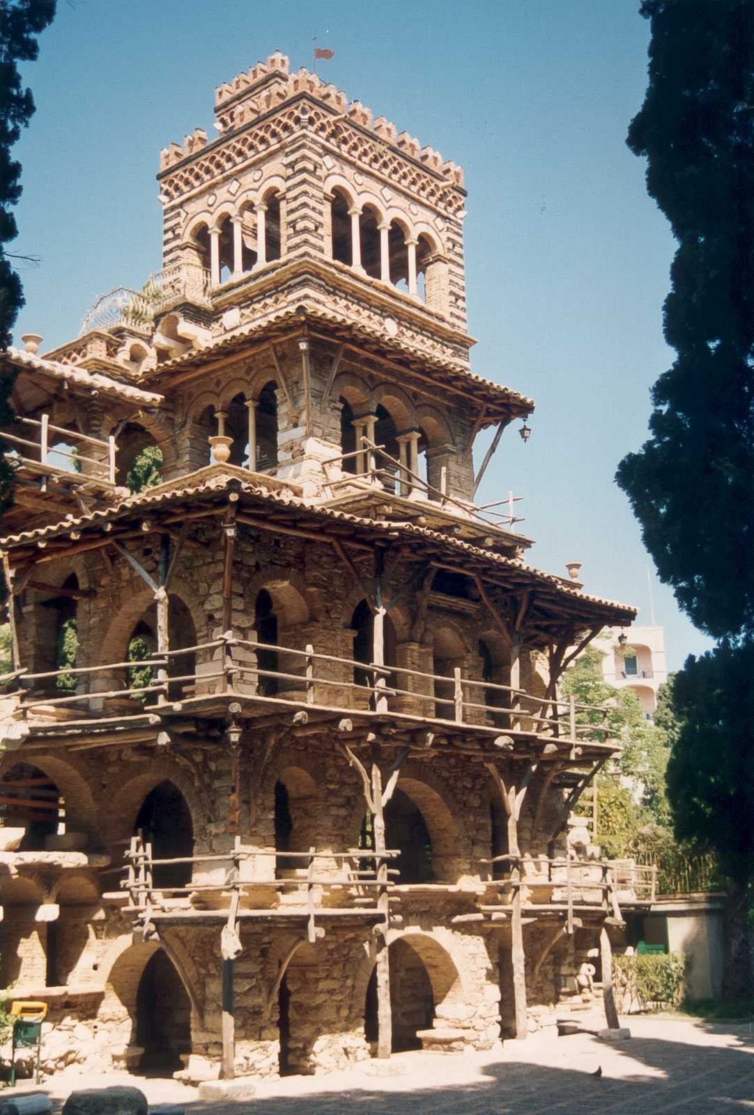 Public gardens in Taormina (Italy). Architectural capriccio in the late Romantic taste. Picture by Patrick Giraud.